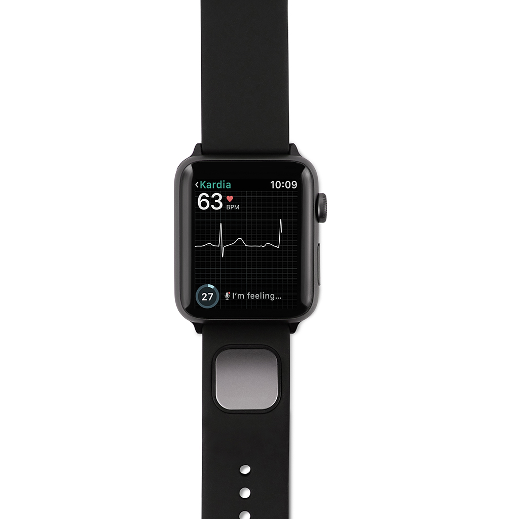 KardiaBand